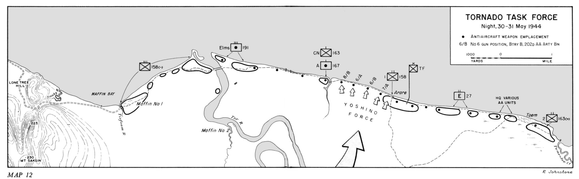 Twenty-one separate perimeters were maintained by the TORNADO Task Force along approximately twelve miles of coast line during the night of 30-31 May 1944. The Yoshino Force fell upon the isolated antiaircraft gun positions. (Battle of Wakde/Sarmi)